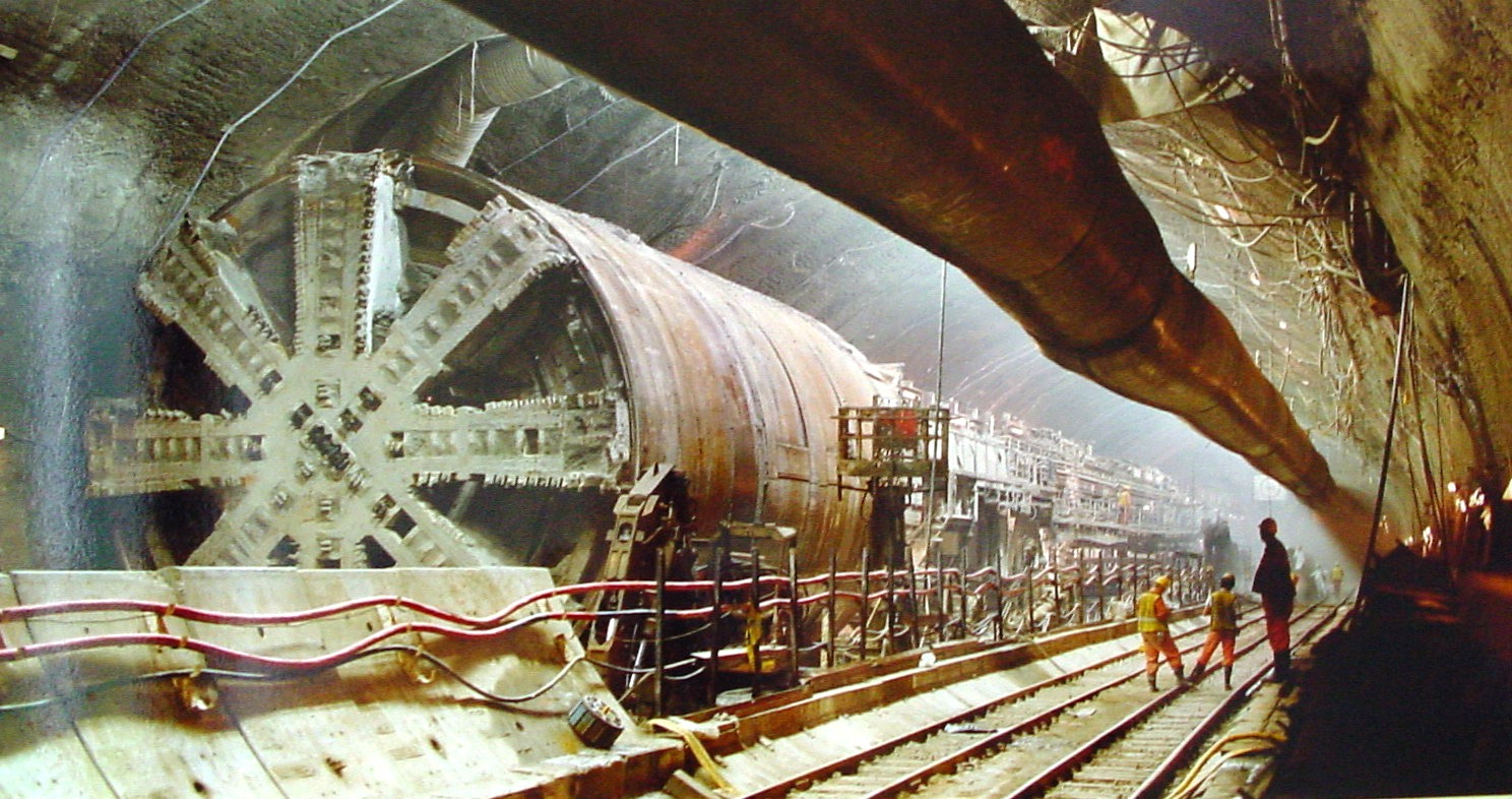 The southern shield in the intersection chamber.